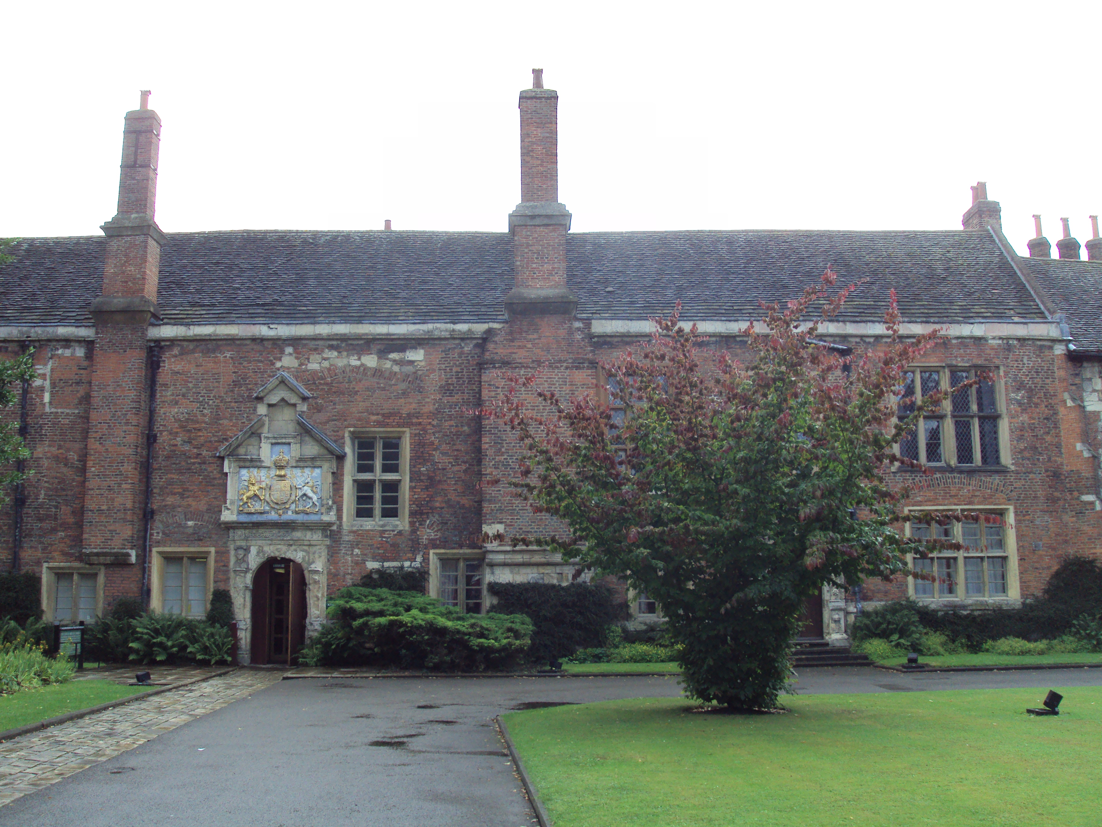 King's Manor, Exhibition Square, York.